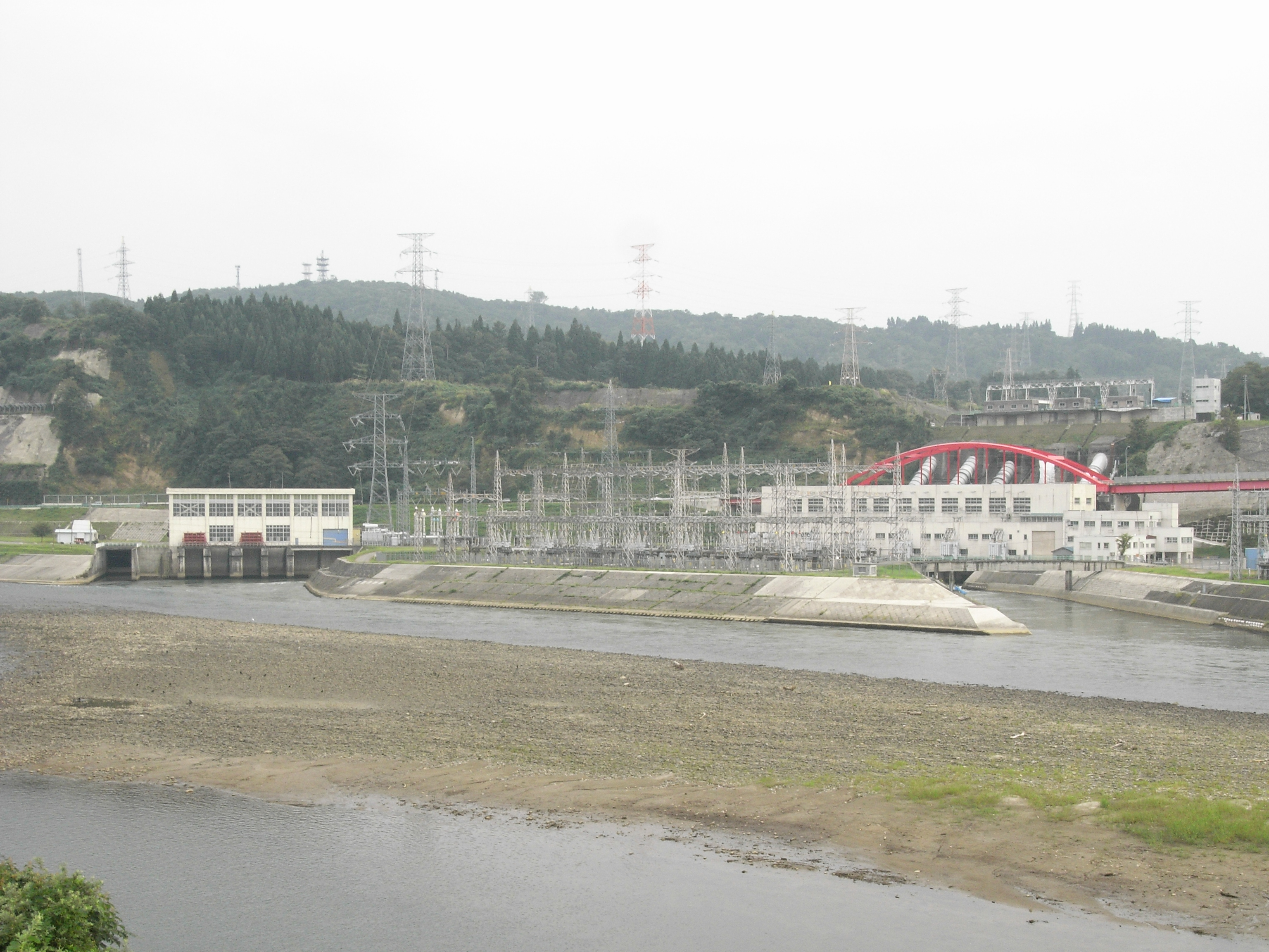 Ojiya Power station&Shin-Ojiya Power Station(Niigata Pref./Japan)